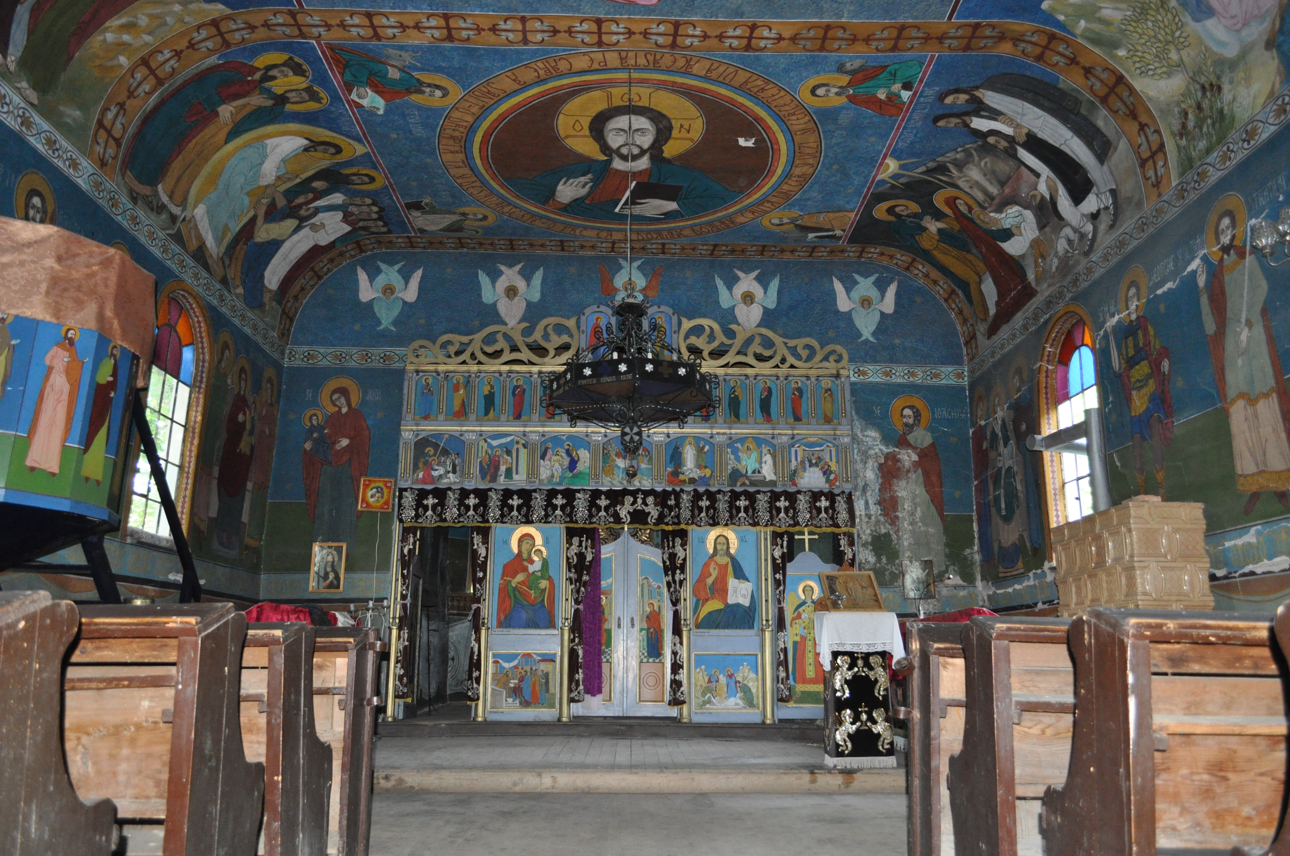 Orosfaia, Bistrița-Năsăud county, Romania